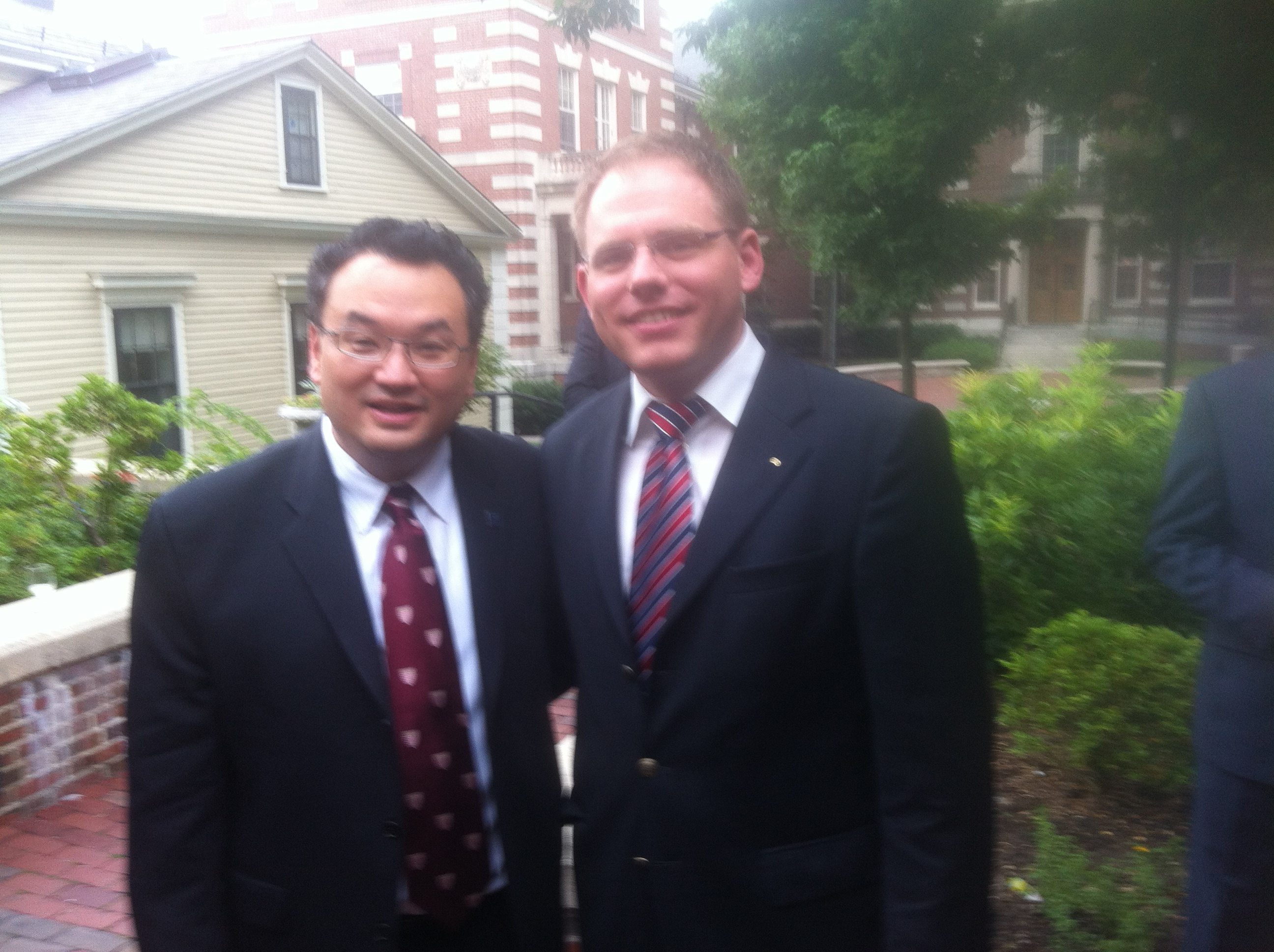 Cupertino Council Member Gilbert Wong, Mayor Christoph Meineke. Harvard Faculty Club